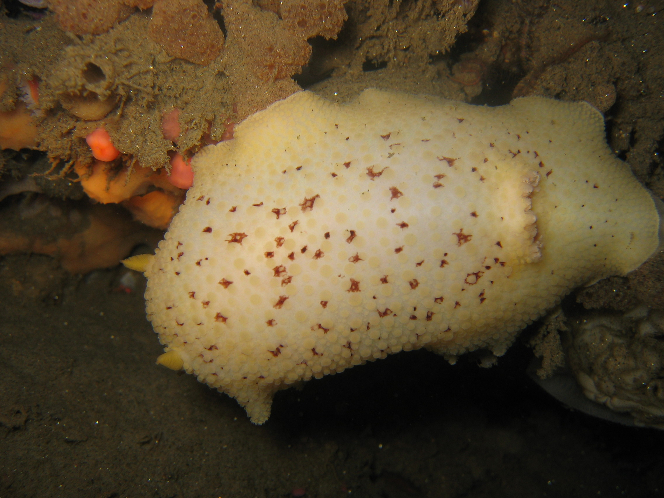 now classified as Montereina nobilis MacFarland, 1905 (synonyms: Peltodoris nobilis/Anisodoris nobilis). Antarctic-adventurer (talk) 12:31, 17 December 2009 (UTC)